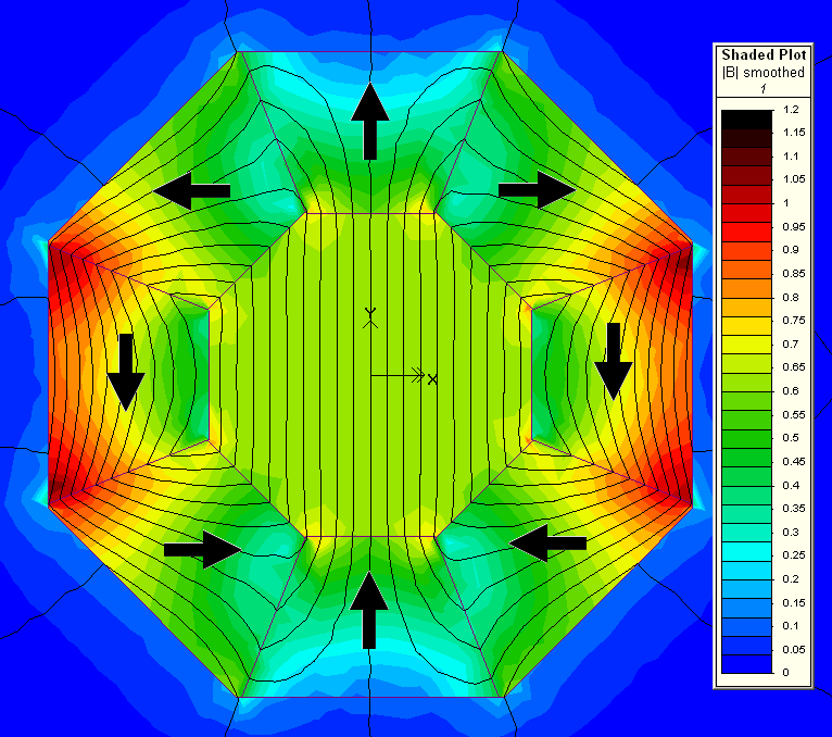 Cylindrical Halbach Arrach modelled in 2D FEM (MagNet, Infolytica). Inside the Halbach array visible uniform magnetic field.